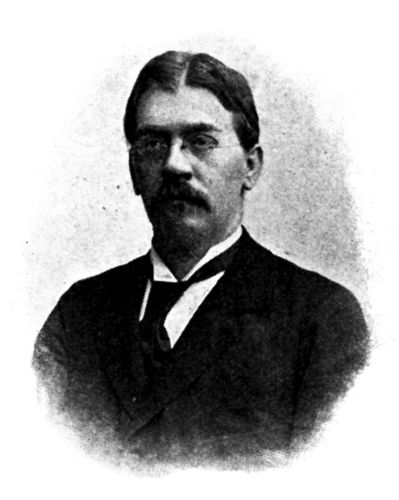 Rudolf von Jaksch (1855–1947), Austrian internist